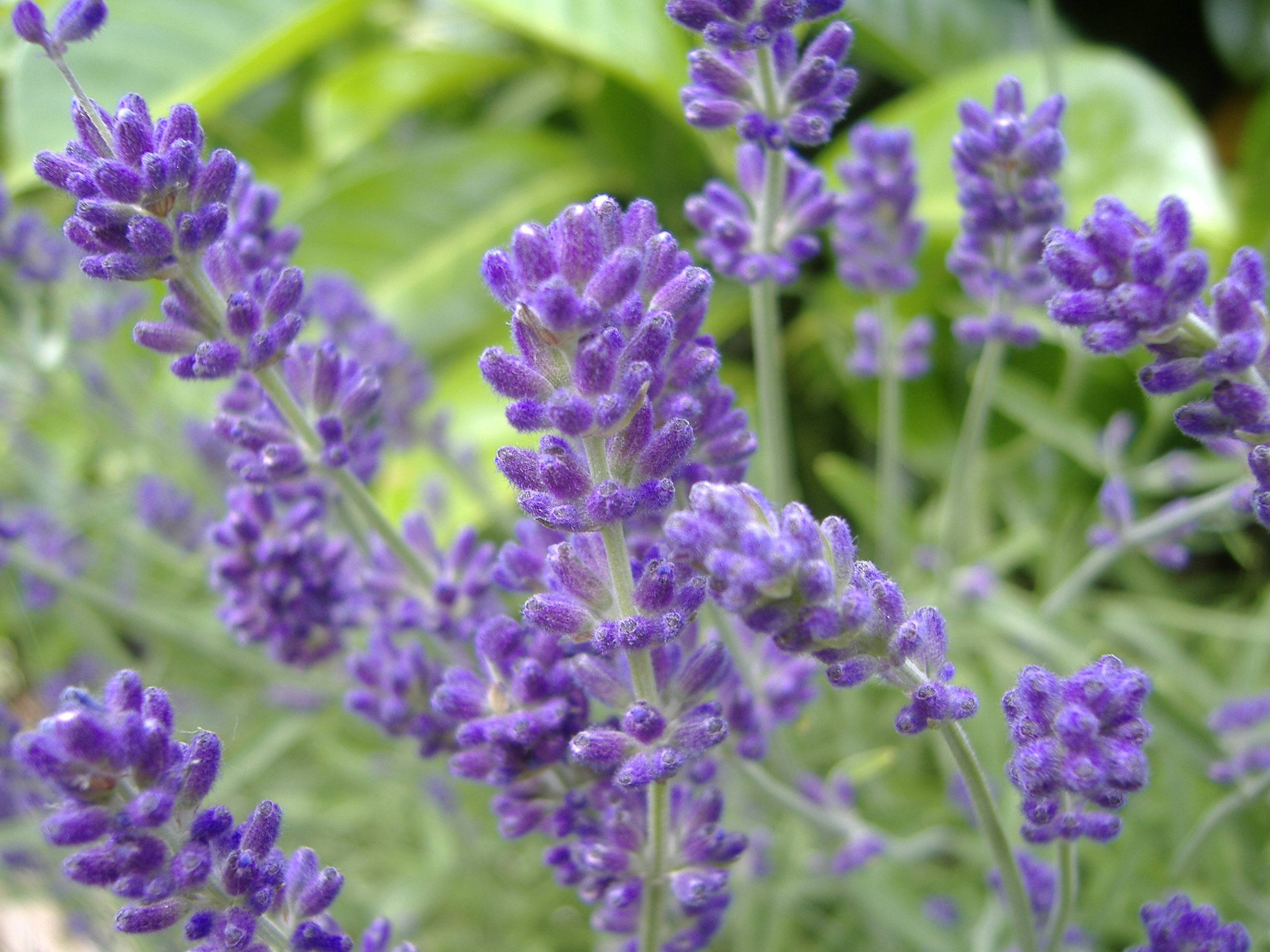 Author is me Ken Irwin. Picture taken by me in my girlfriend's garden in Oxfordshire, England on June 25th 2006.